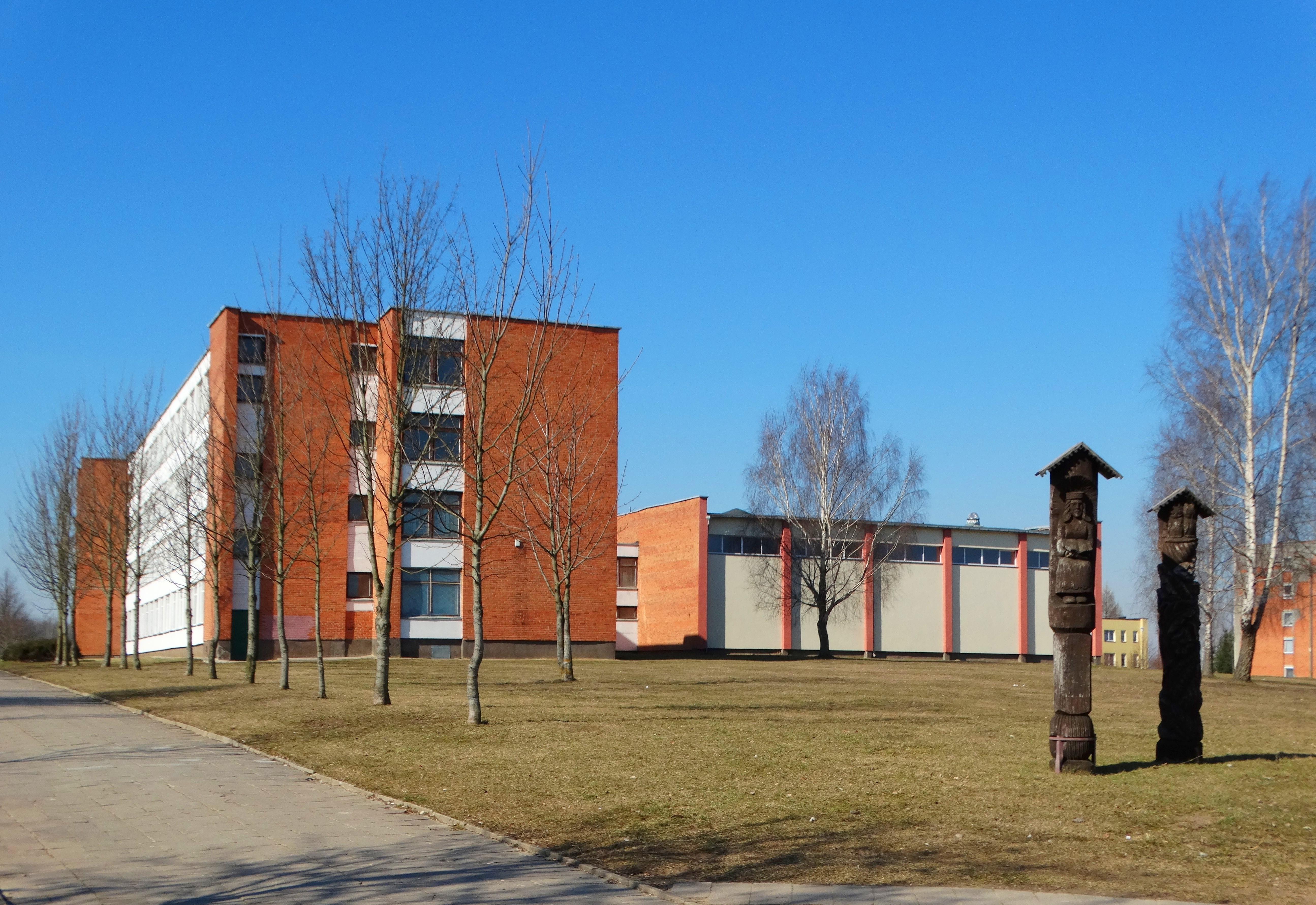 Center of Vocational Training, Kelmė, Lithuania